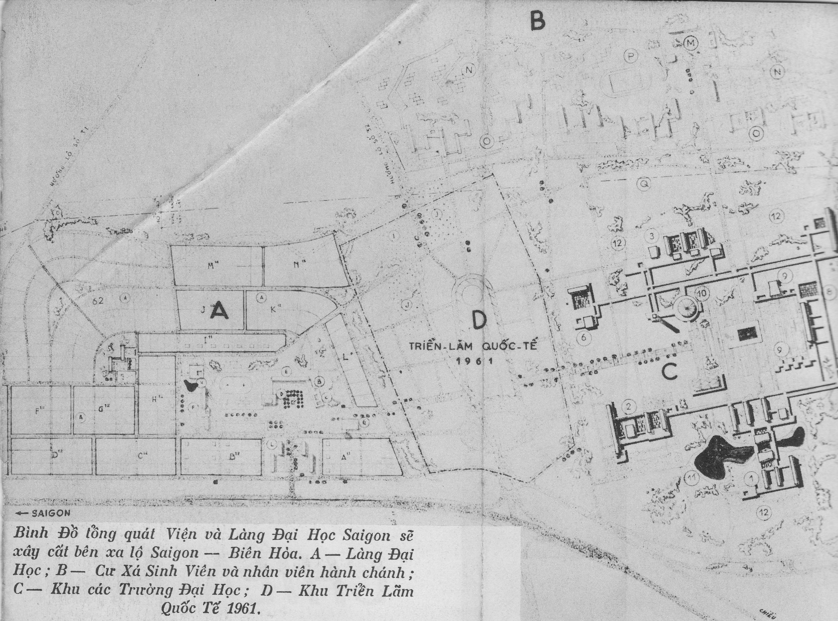 Proposed plan for the National University Campus in Thu-duc